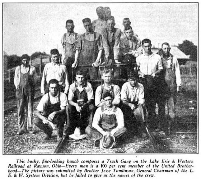 Railroad track laborers (sometimes known as gandy dancers)